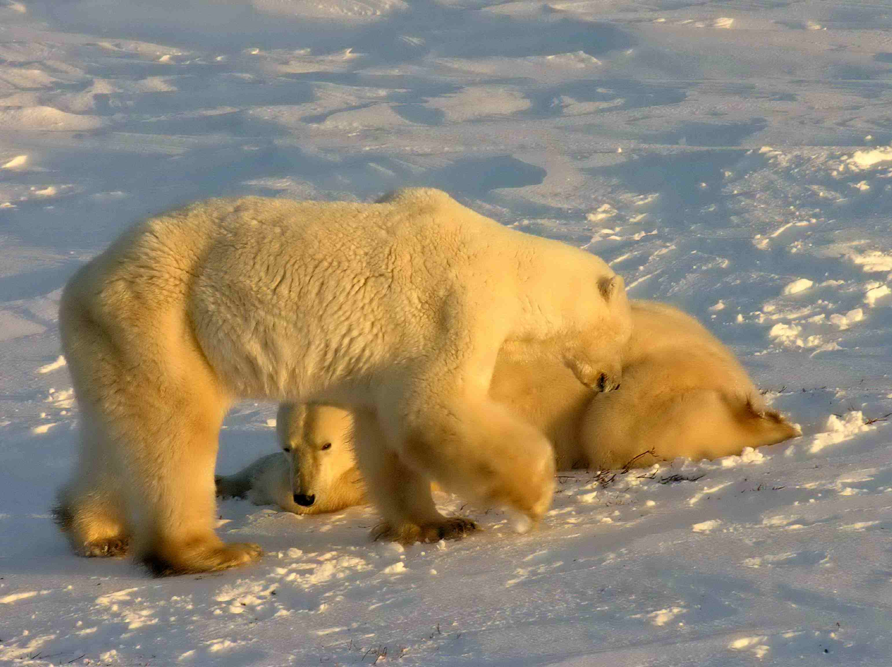 Polar Bears at Cape Churchill (Wapusk National Park, Manitoba, Canada)